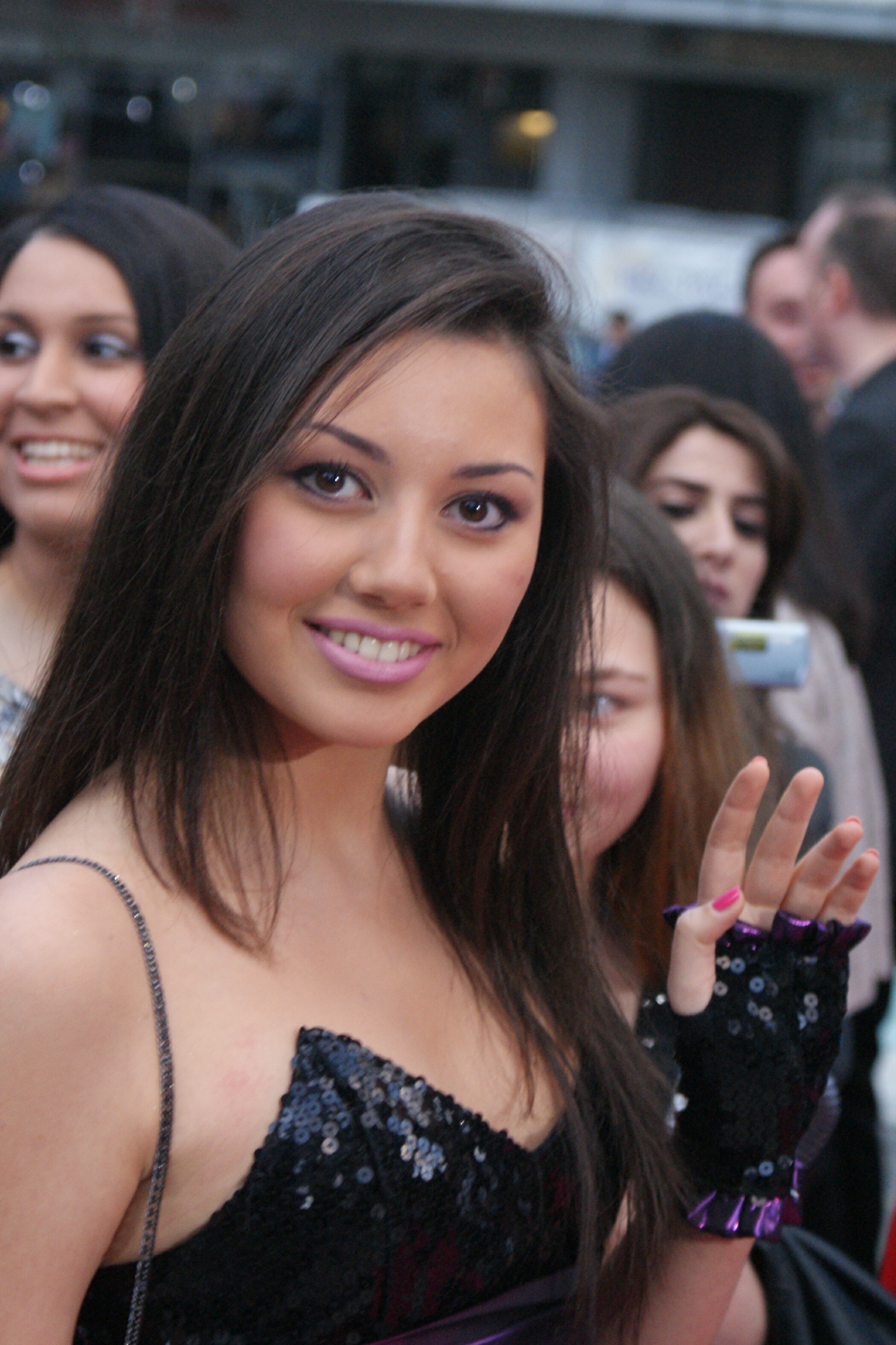 Safura Alizadeh representing Azerbaijan at Eurovision Song Contest 2010 during a Welcome Party at City Hall in Oslo, Norway.